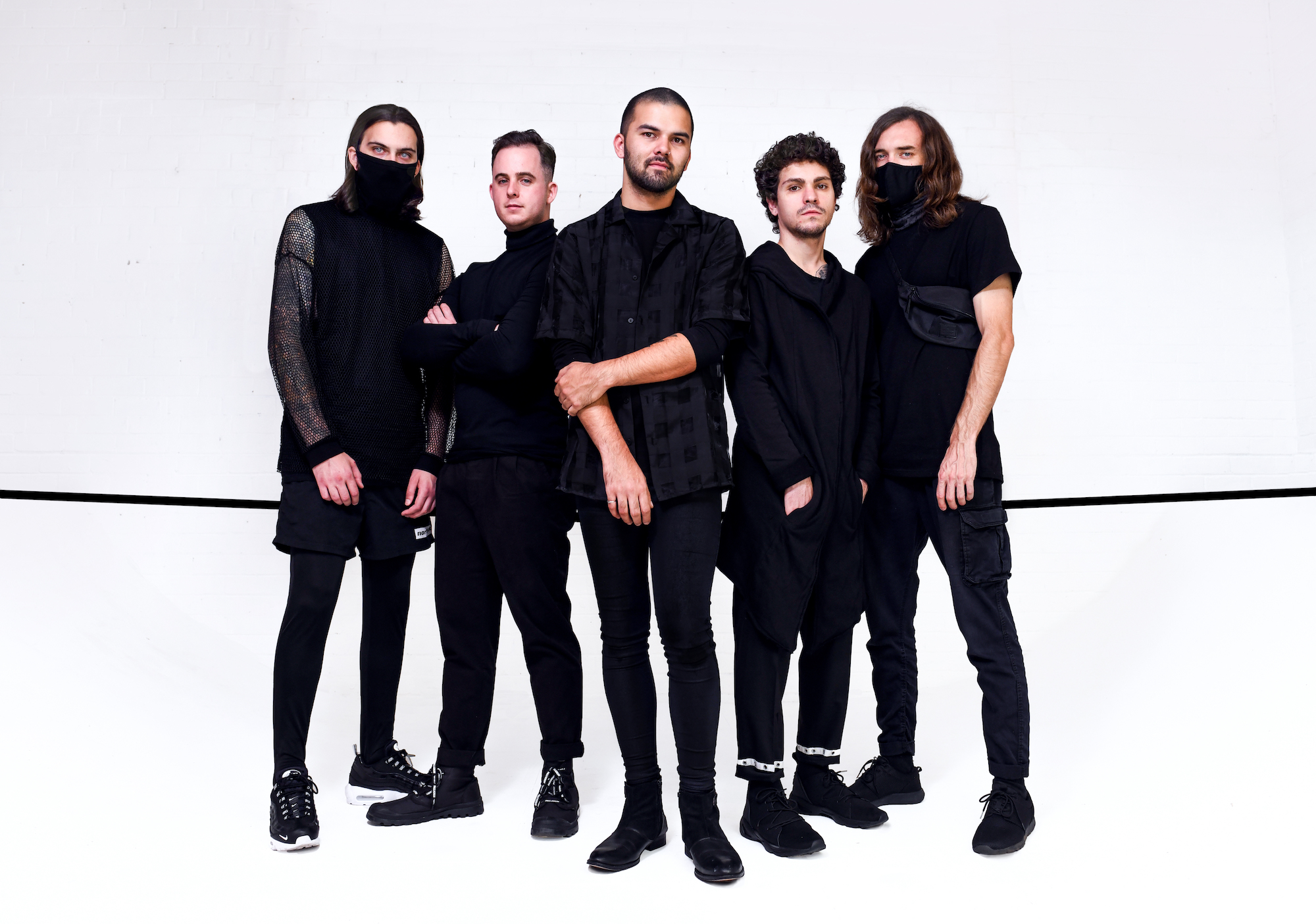 Official press image for Northlane - 2019